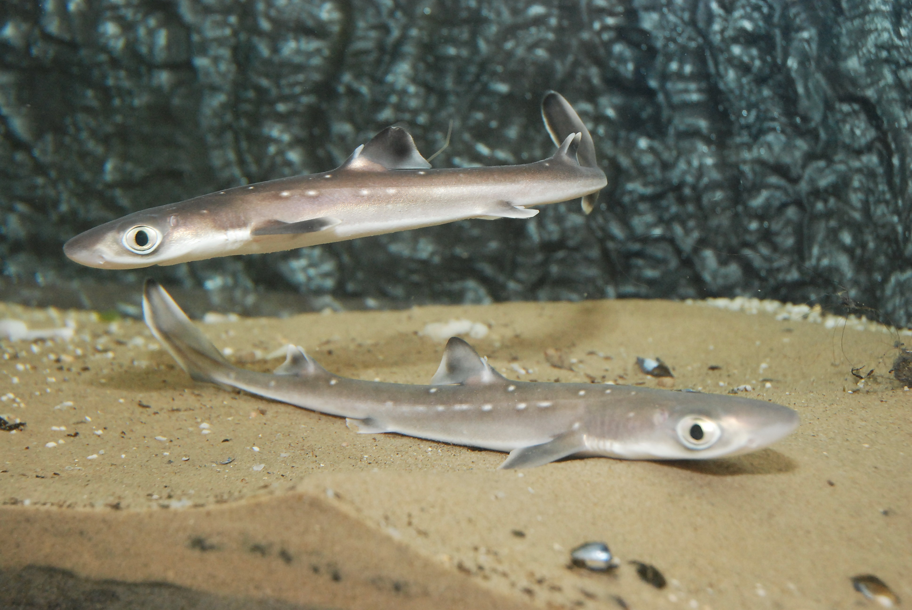 2 spiny dogfish (Squalus acanthias)